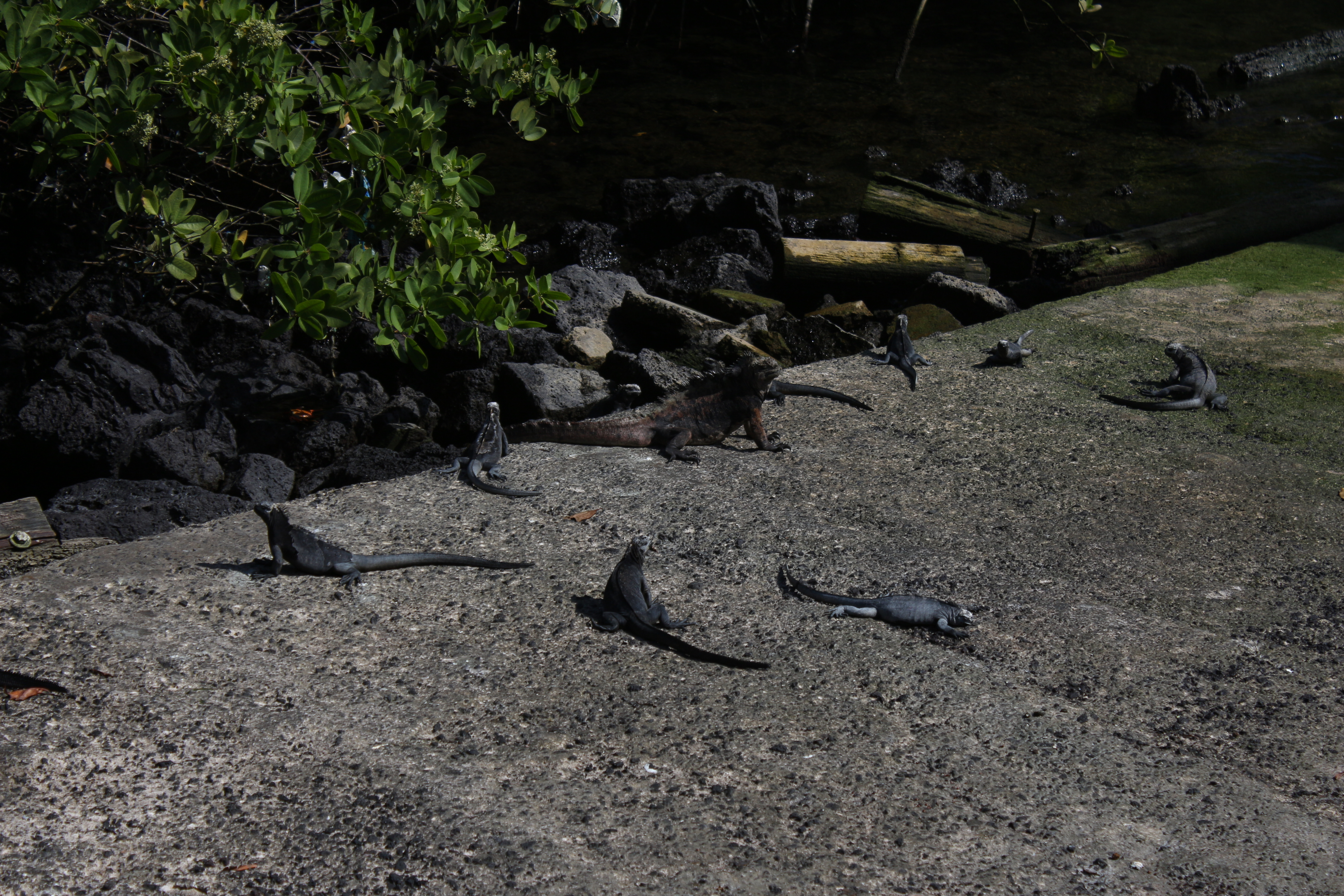 Marine Iguanas at Charles Darwin Center, Puerto Ayora, Santa Cruz Island, Galapagos Islands, Ecuador